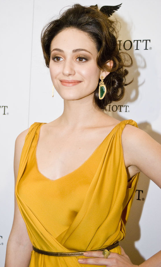 Emmy Rossum at JW Marriott Chicago Grand Opening in Chicago, IL, USA on March 8, 2011. Photo by Adam Bielawski